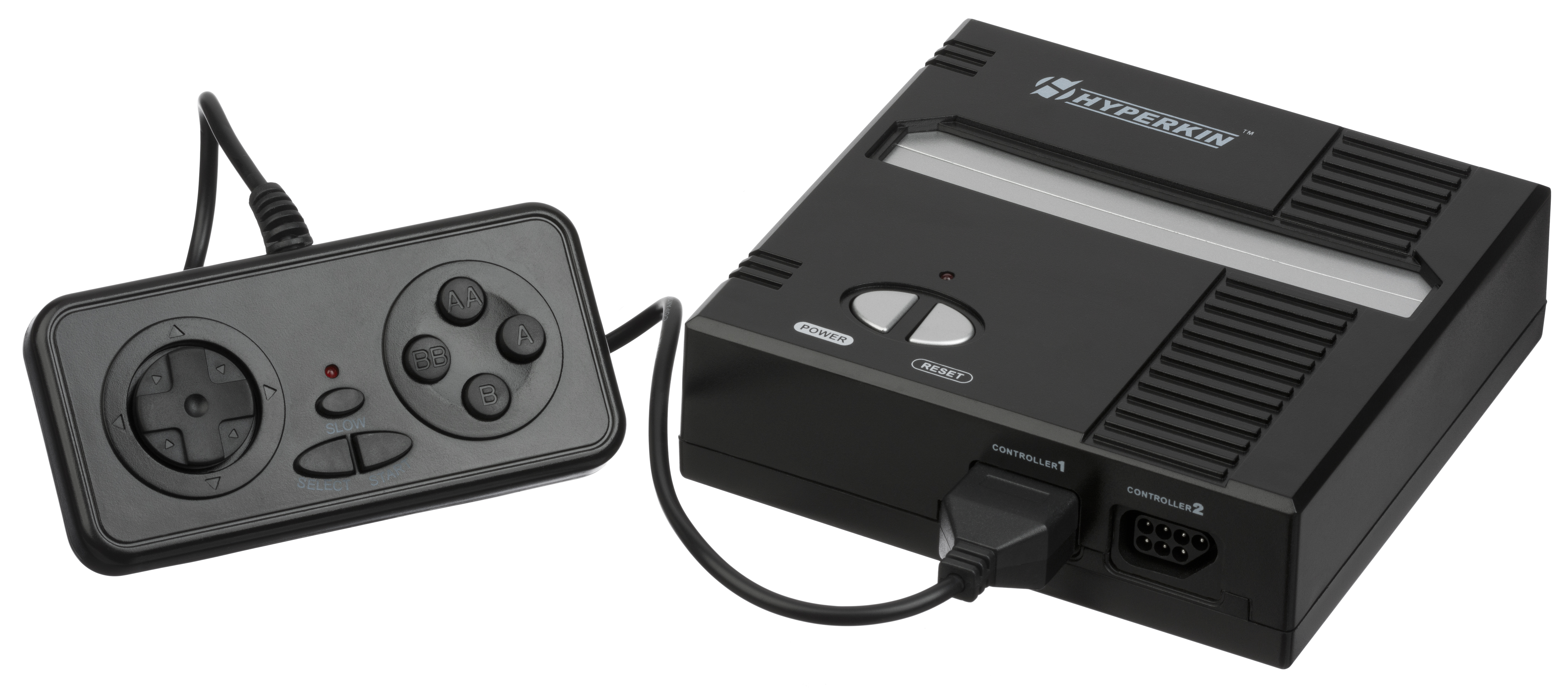 The "RetroN 1" gaming console, by Hyperkin. The "RetroN 1" is a clone system of the NES, making it possible to play official NES game cartridges through hardware emulation. The system also features standard NES controller ports that make it compatible with official controllers as well. Increasingly popular in the past few years, clone systems like the "RetroN 1" allow people to get into retro gaming without having to buy secondhand consoles and hardware. Also, given the age and faultiness of the original NES cartridge slot, it can also replace broken systems. The "RetroN 1" is one of the cheaper clone systems and sells for under $25 online or in independent gaming stores.